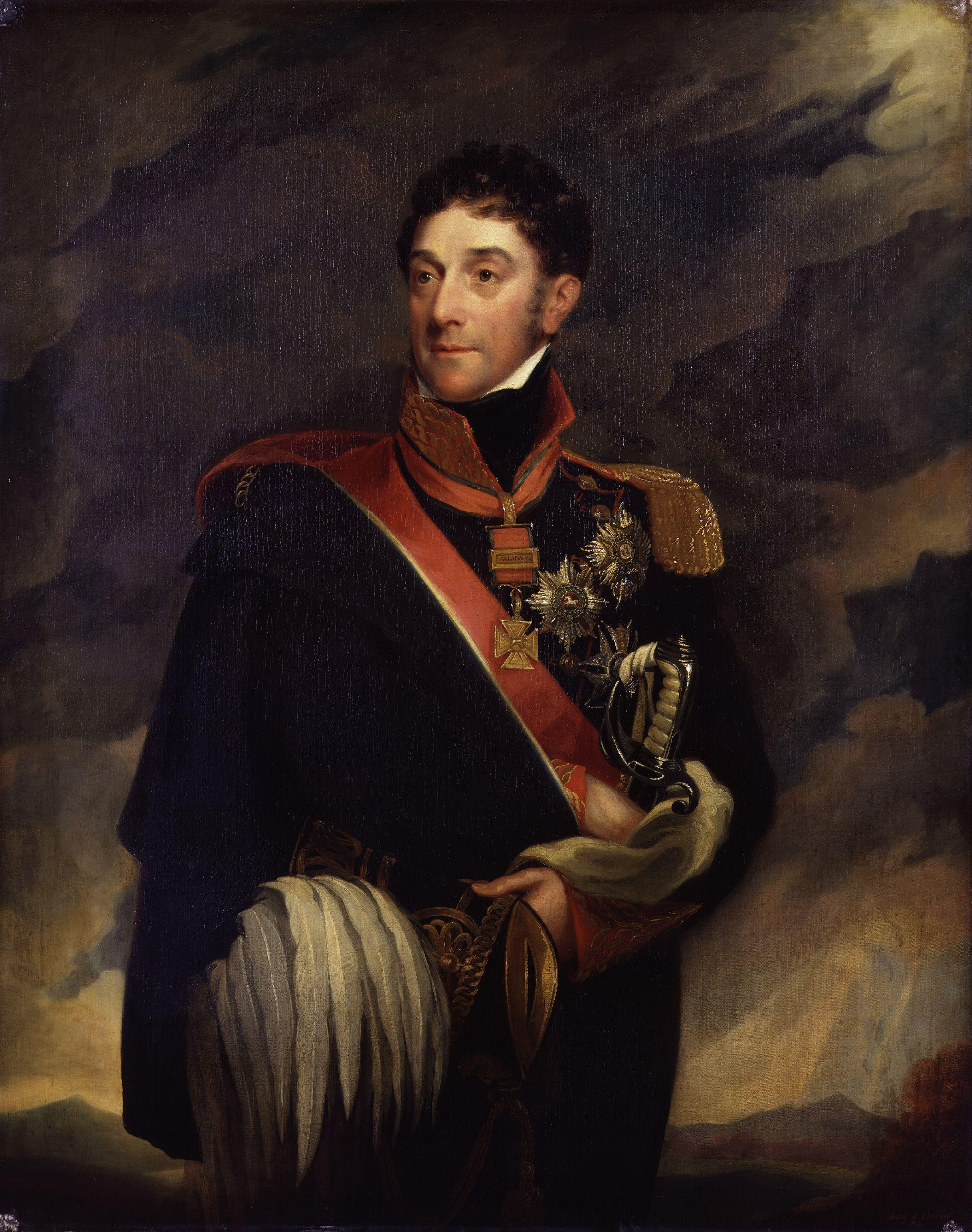 Stapleton Cotton, 1st Viscount Combermere, by Mary Martha Pearson (née Dutton) (died 1871), given to the National Portrait Gallery, London in 1872. All images in this batch have been confirmed as author died before 1939 according to the official death date listed by the NPG.